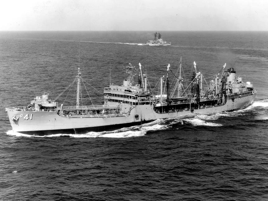 The U.S. Navy fleet oiler USS Mattaponi (AO-41) underway near the aircraft carrier USS Hornet (CVS-12) in the Gulf of Tonkin, 18 December 1968. Mattaponi is departing after refueling the guided missile destroyer USS Parsons (DDG-33), visible in the background.